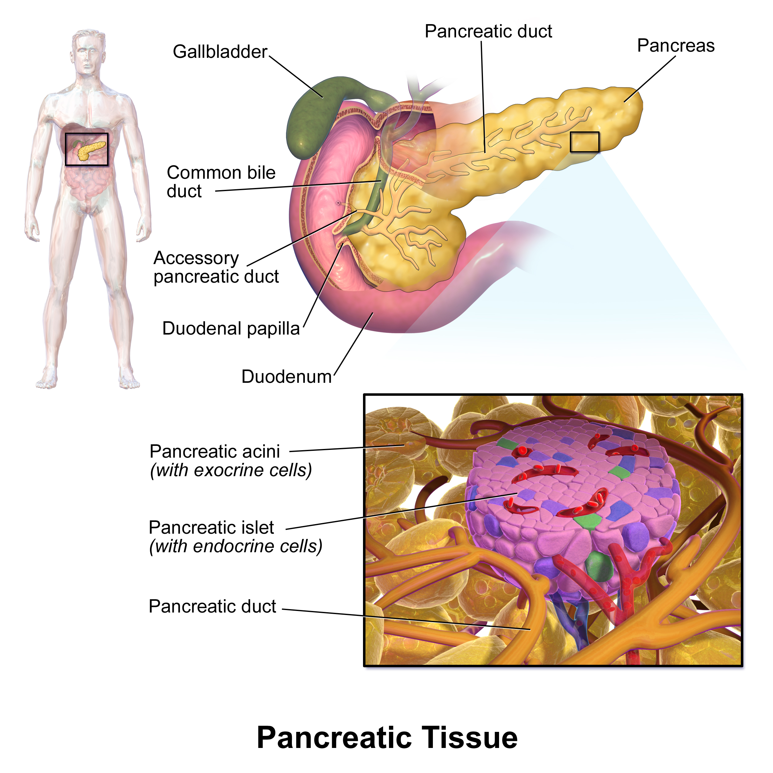 Pancreatic Tissue. See a full animation of this medical topic.